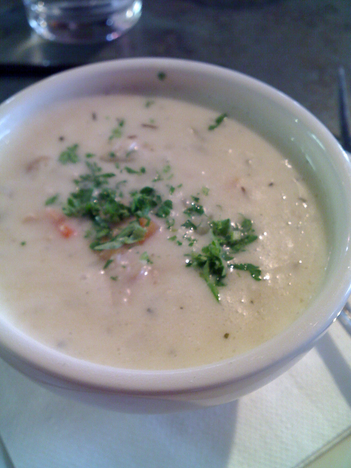 Clam chowder appetizer - surprisingly good!! Lots of body with big chunks of clam, tied together by a nice creamy soupy base.